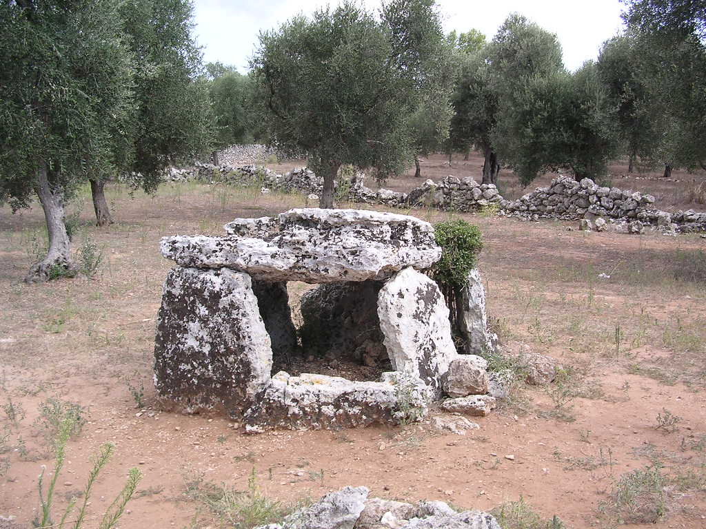 Dolmen Placa near Lecce, Apulia, Italy